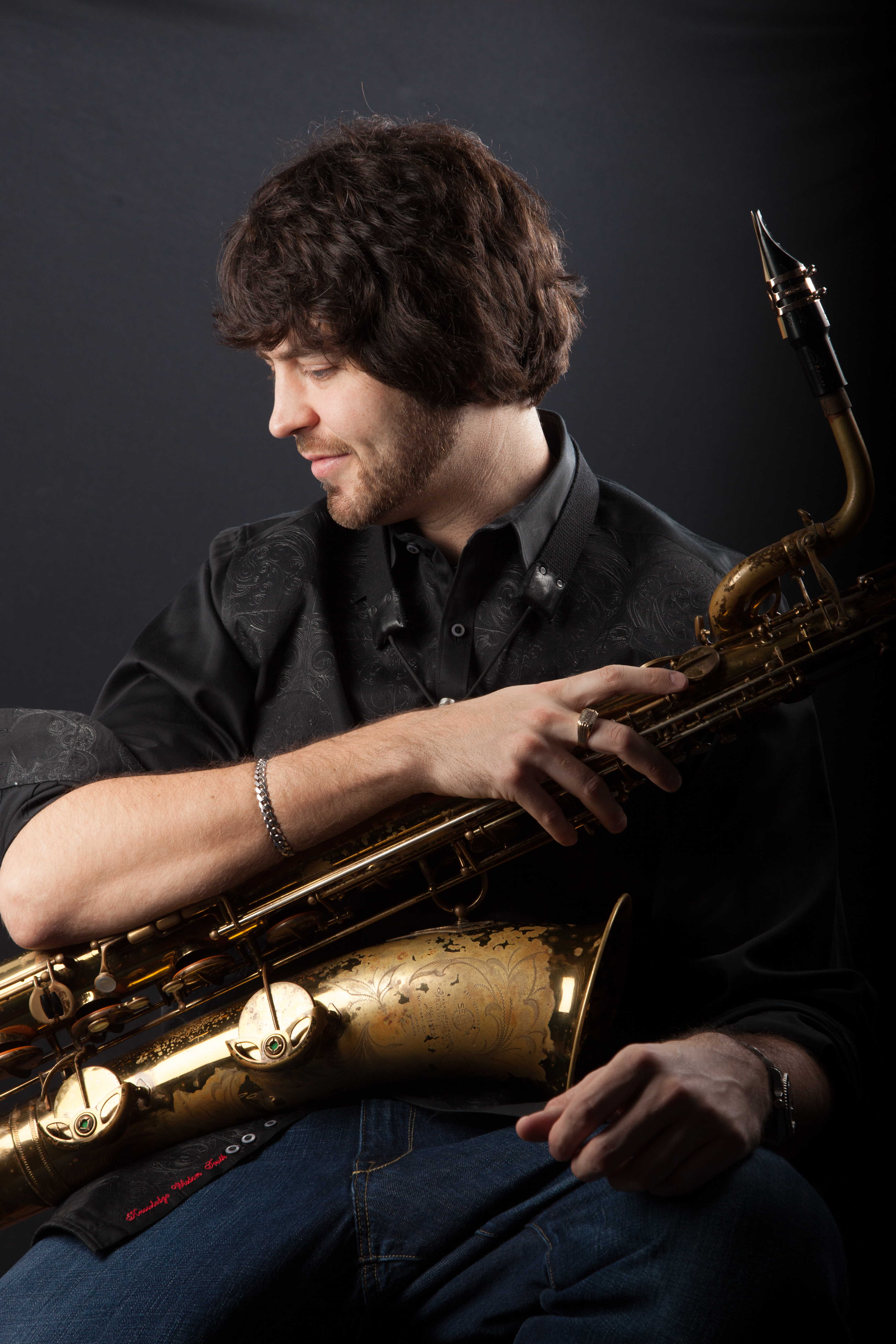 Taken in Brooklyn, NY 12/13/12 by Vince Segalla